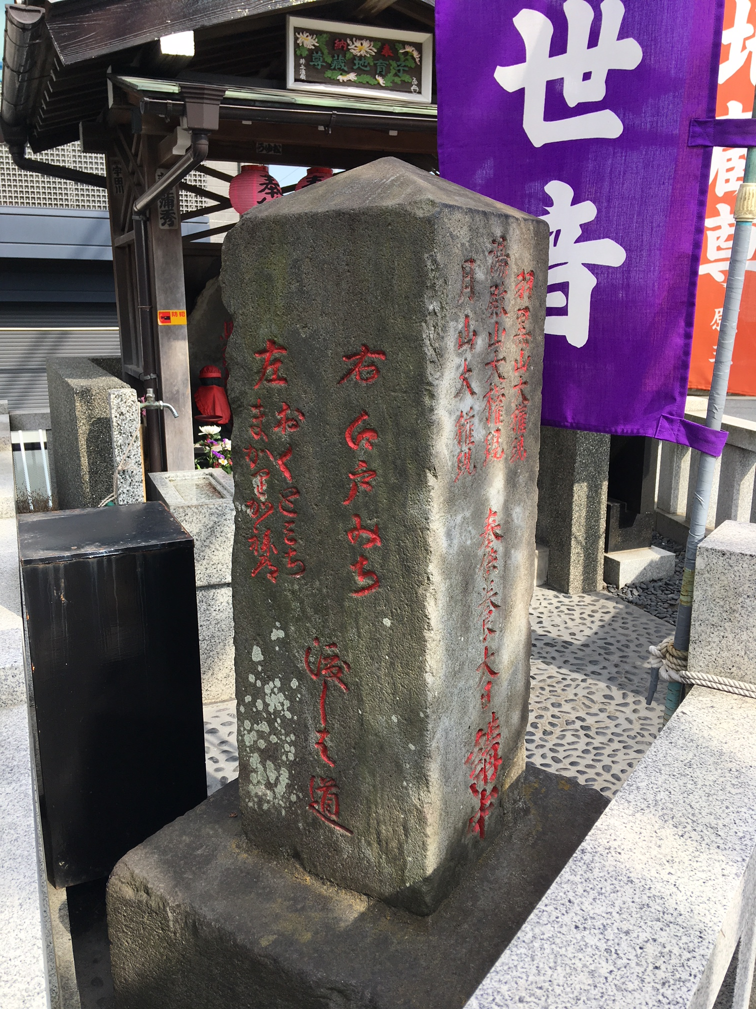 Stone signpost next to the bridge"Hon-Okudobashi", Katsushika, Tokyo, Japan